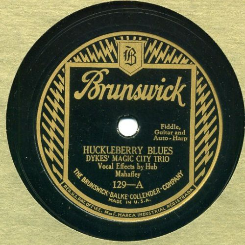 Huckleberry Blues by Dykes' Magic City Trio, Brunswick 1927.